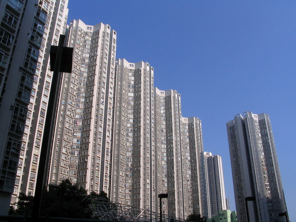 藍田 滙景花園 Sceneway Garden, Lam Tin